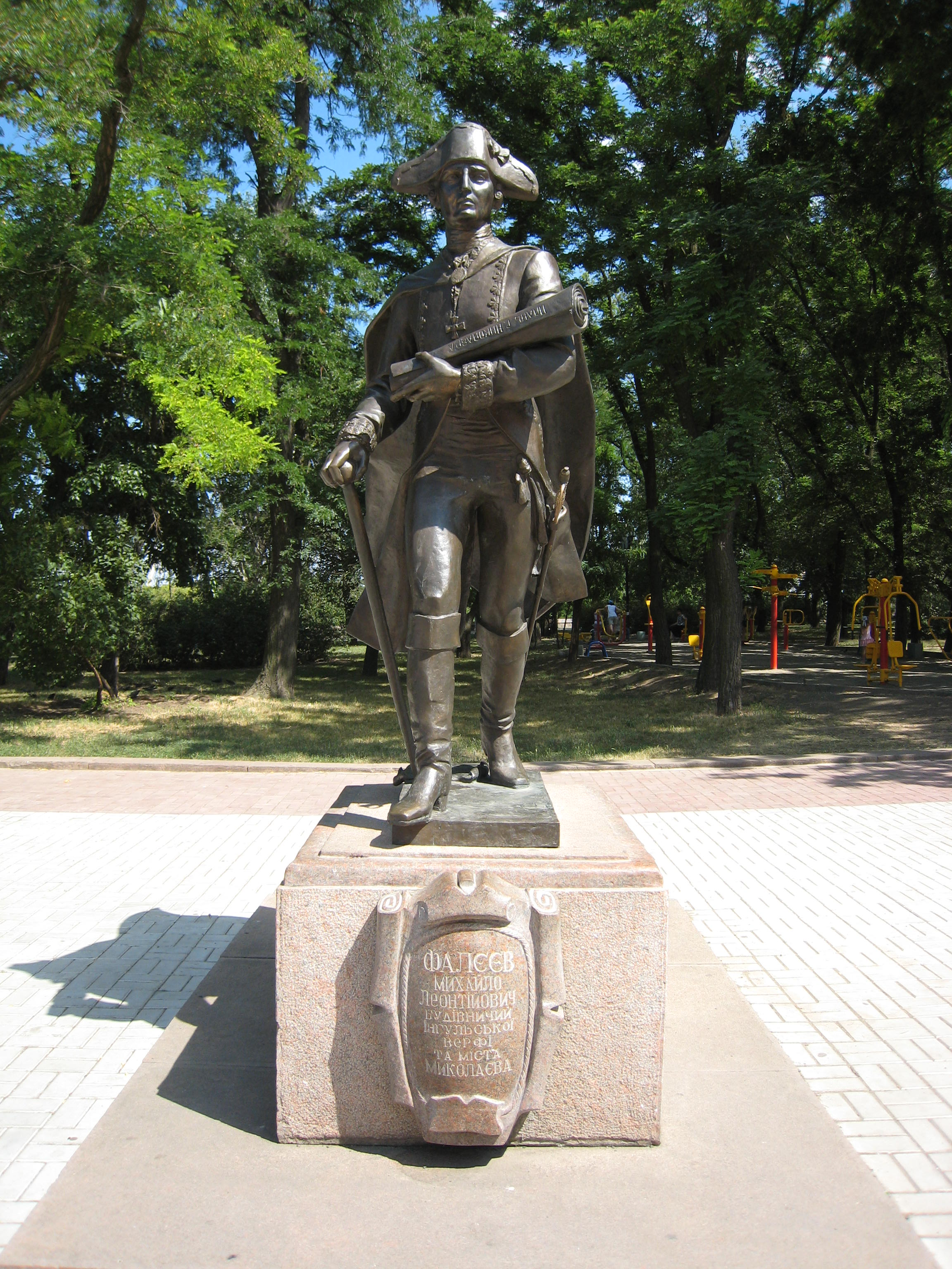 Monument to Mikhail Faleev in Mykolaiv, Ukraine.